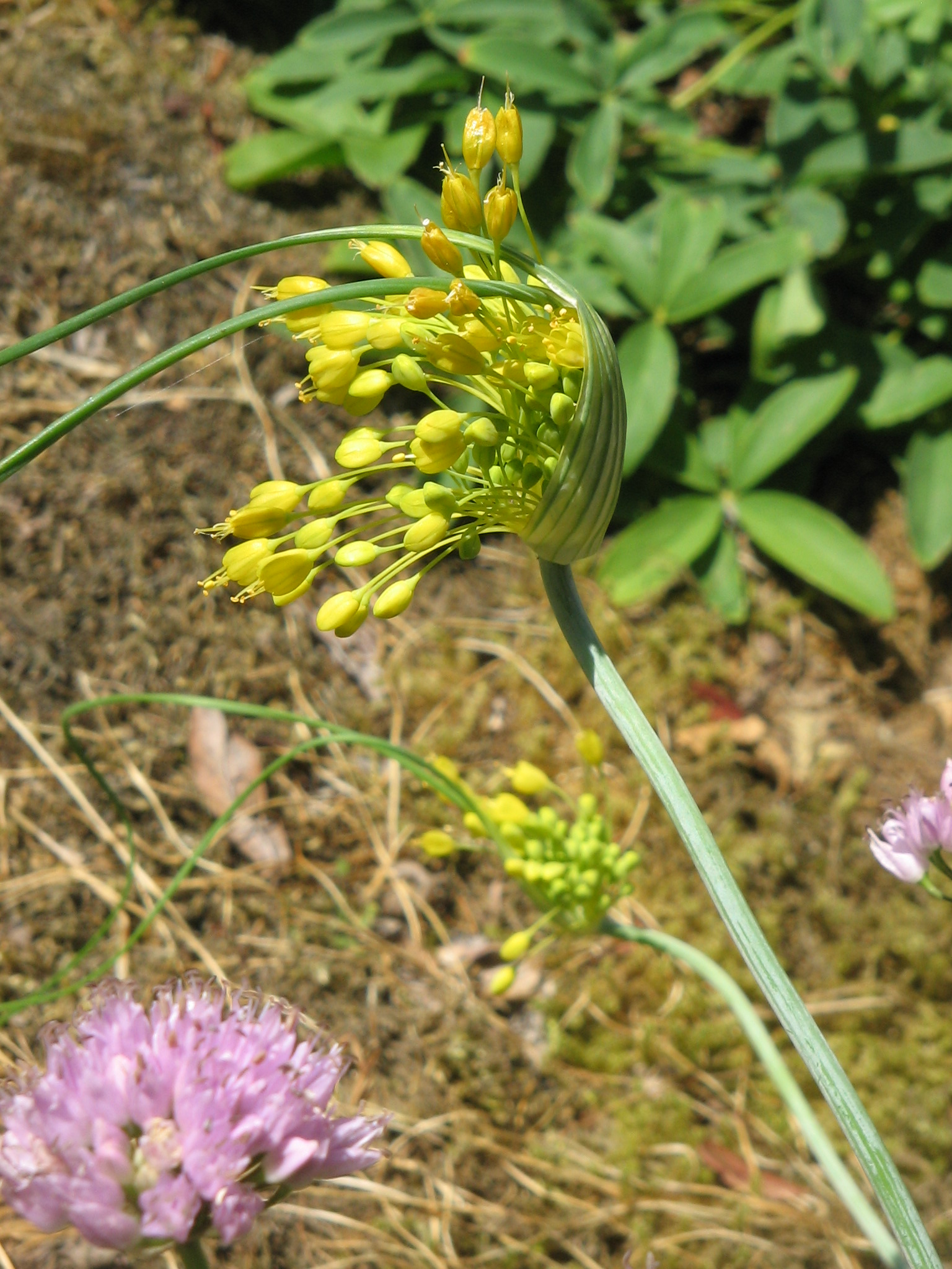 Allium flavum opening